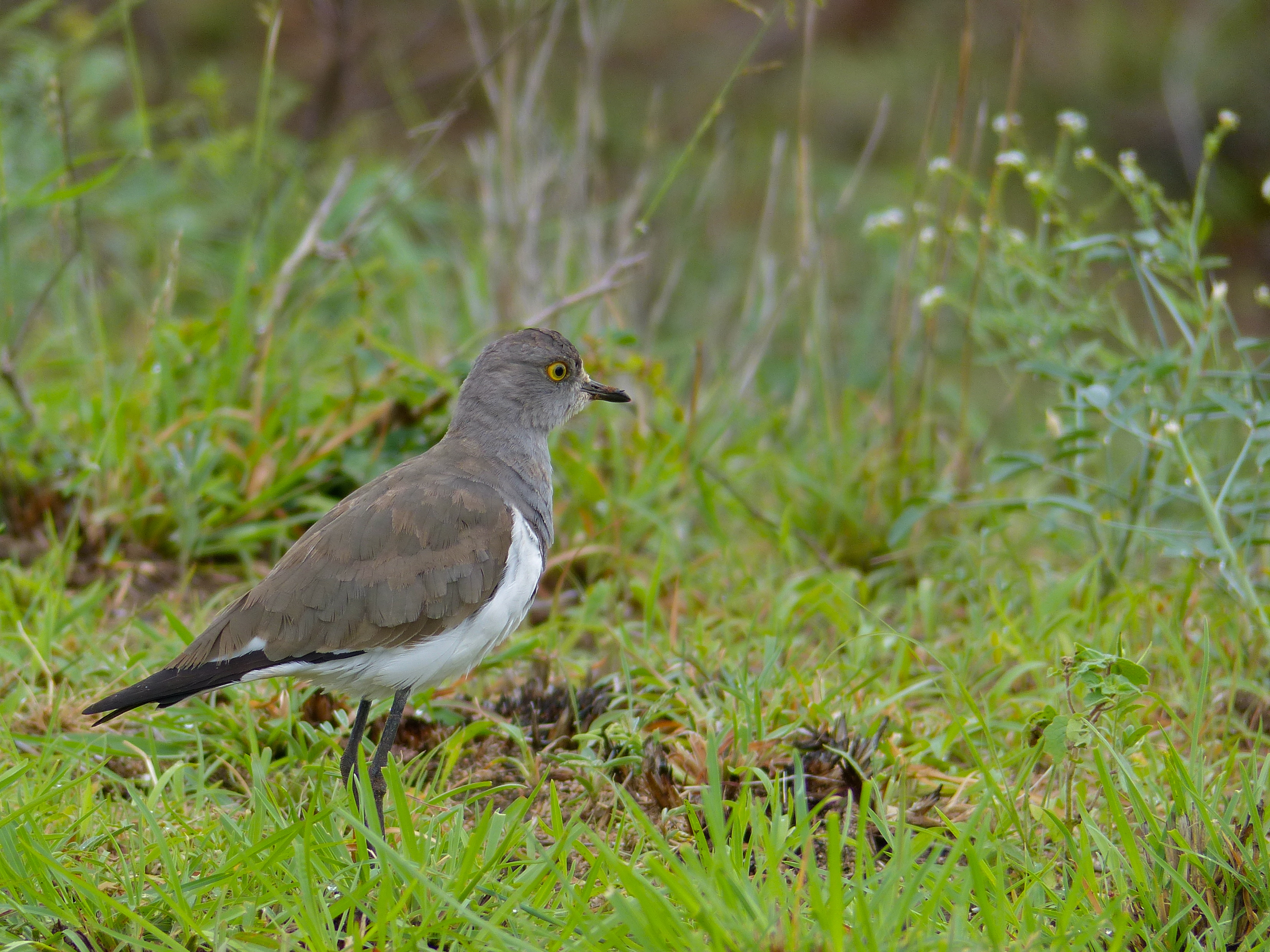 H1-3 Road South of Satara, Kruger NP, SOUTH AFRICA